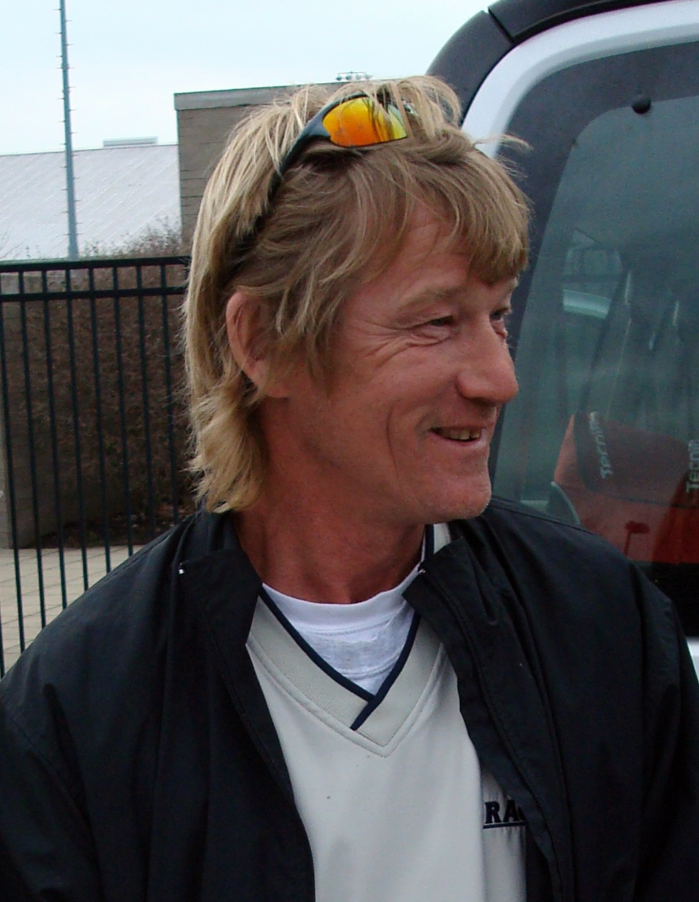 Mel Purcell (born July 18, 1959, in Joplin, Missouri, U.S.) is a former World No. 17 tennis player in the ATP tennis rankings.